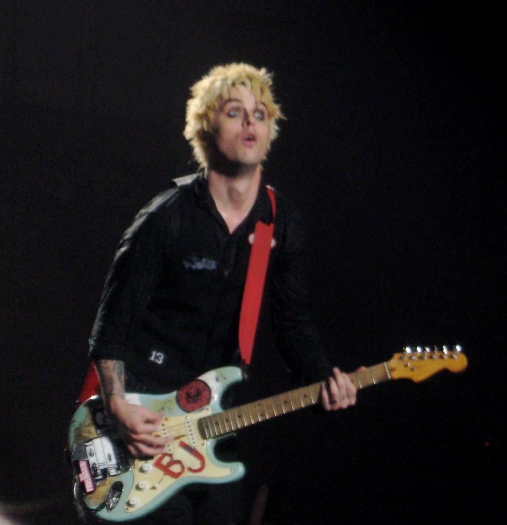 Billie Joe Amstrong performing with the original 'Blue' in Glasgow, Scotland 2009